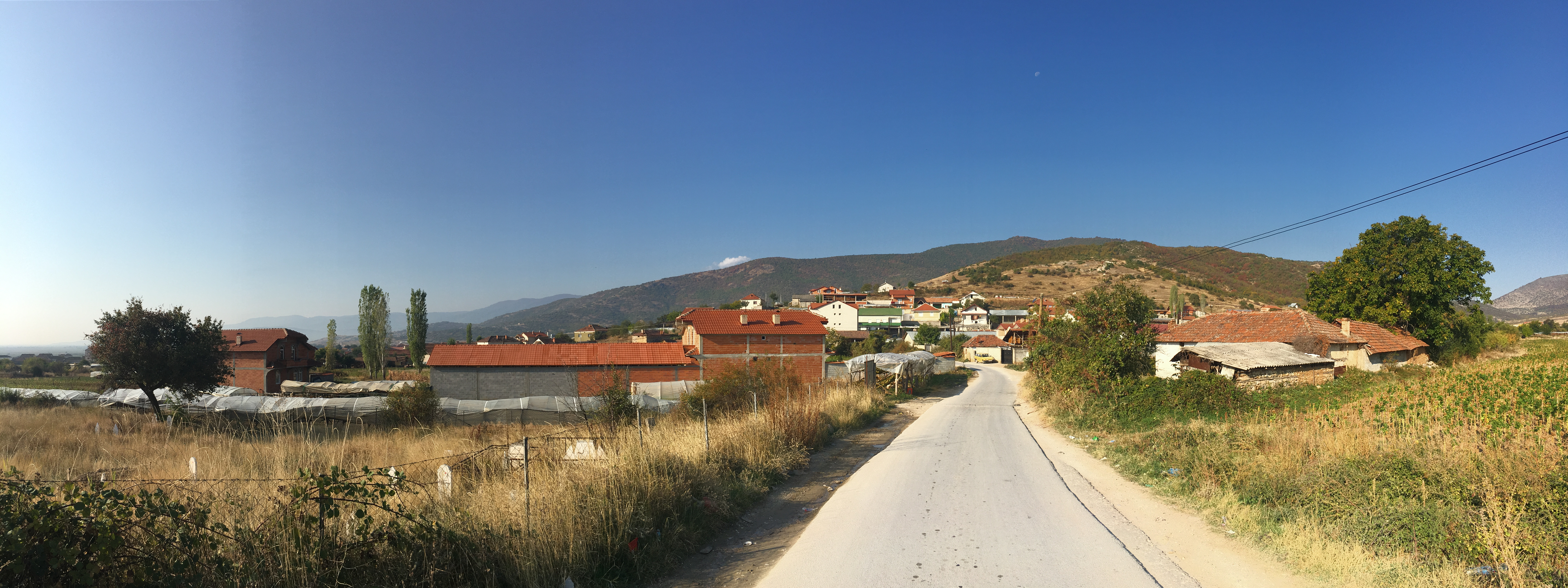 A panoramic view of the village of Debrešte